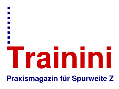 Logo of the Trainini newspaper, Germany.